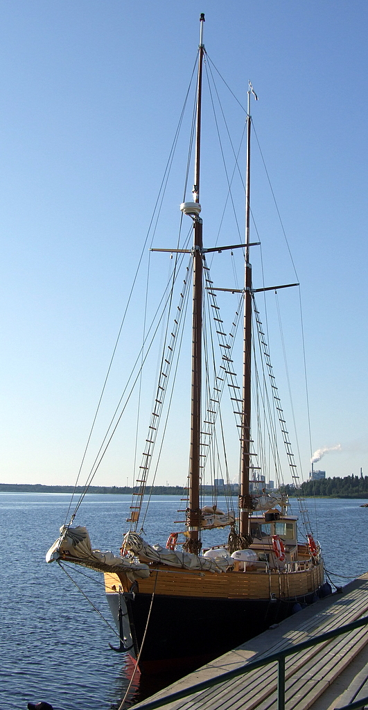 The galleass-type Jähti has been built in Kemi (Finland) and it was launched in the spring 2007.